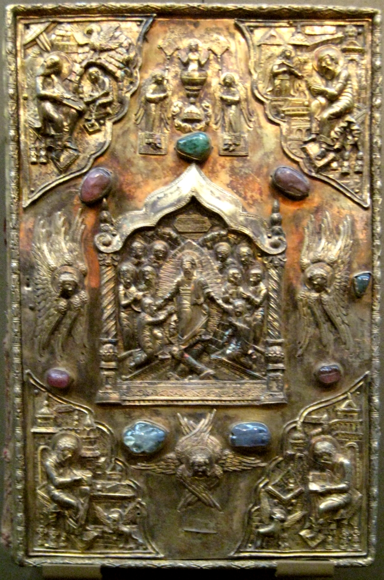 Gospels, Tretiakov gallery